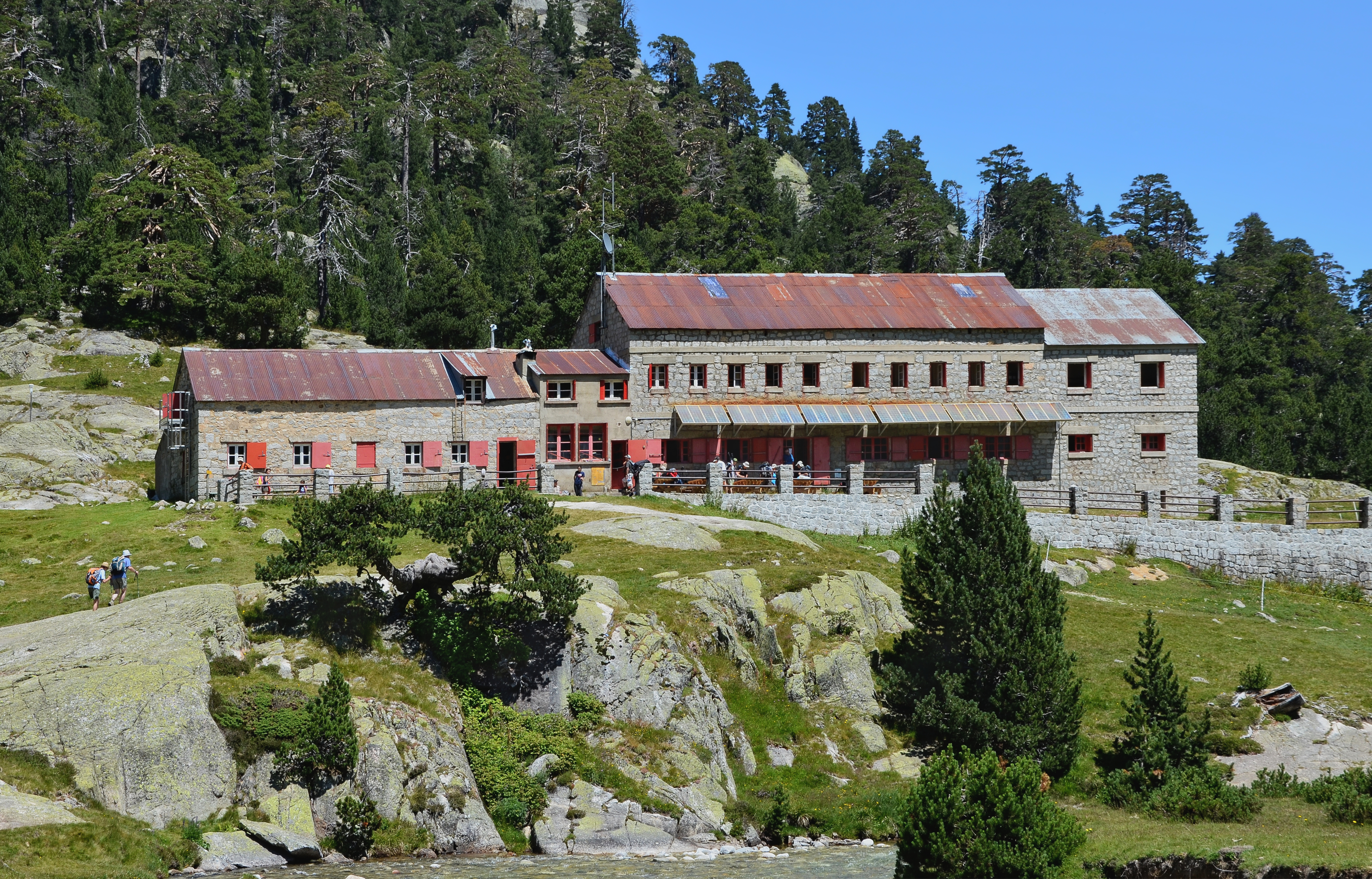 Refuge Wallon (or Mountain hut of the Marcadau), Cauterets, Hautes-Pyrénées, France.